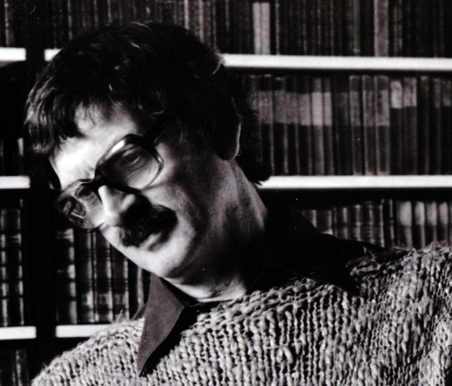 Portrait of Fons van der Linden, graphic designer and historian of the book